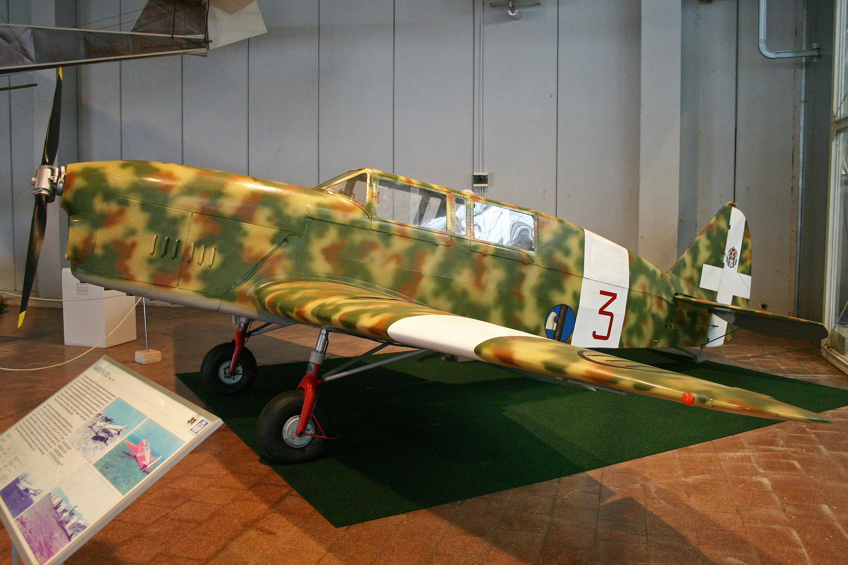 Displayed in Hangar VELO. Previously registered as I-DASM. msn 766